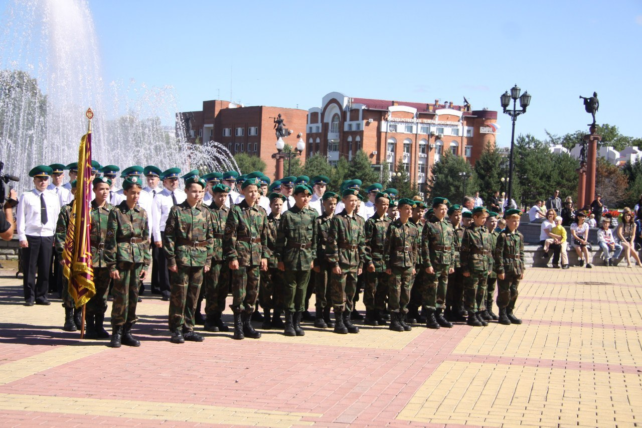 Students of the Orthodox Cadet Center